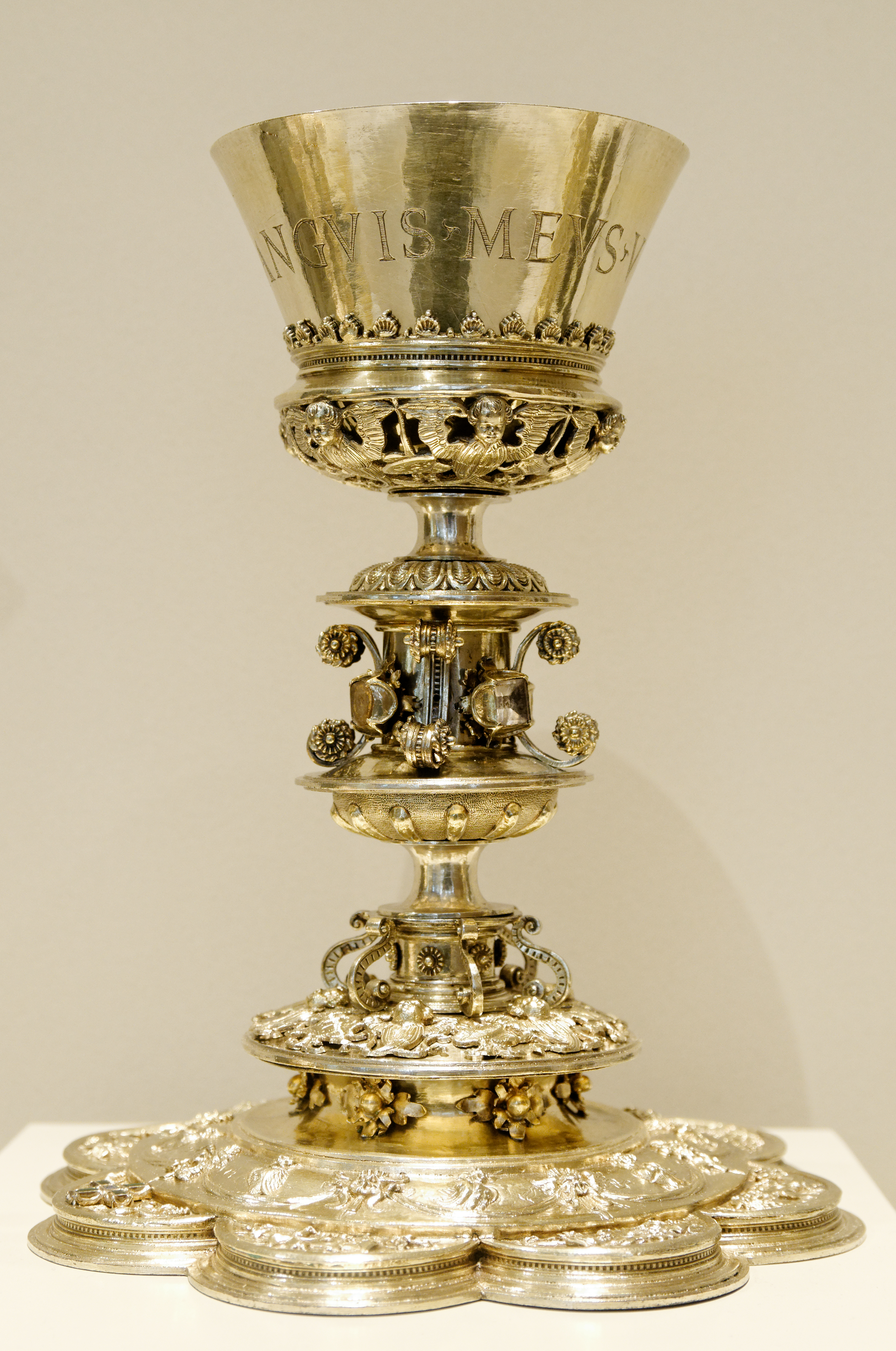 Chalice with the inscription: 'My blood truly is a libation' (John 6:55, KJV), made for the church St John the Baptist in Salinas, Spain.